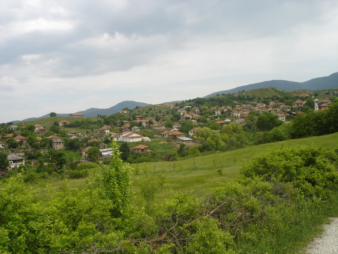 village of Vitolishte in Mariovo region, Macedonia